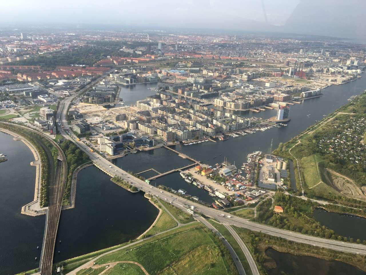 Sydhavnen Denmark Copenhagen Sjællandsbroen Teglholmen, photo from September 2018